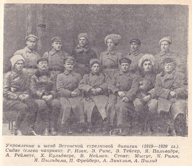 Management and staff of the Estonian Rifle Division (1919-1920)